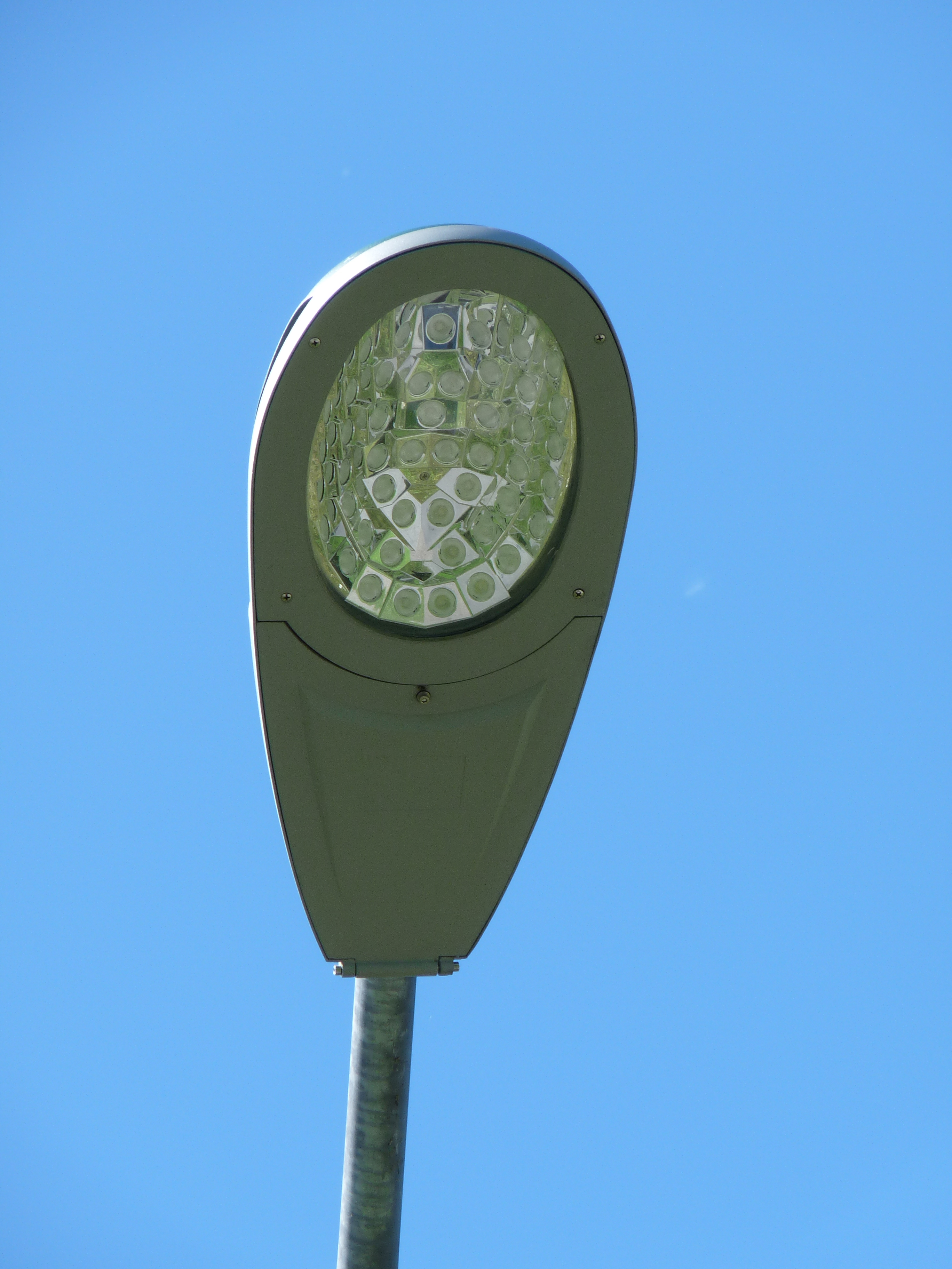 LED streetlamp in Tallinn